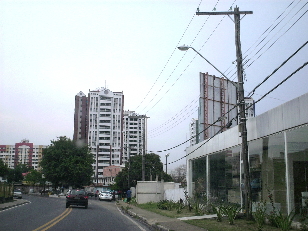 Vieiralves square, Manaus.